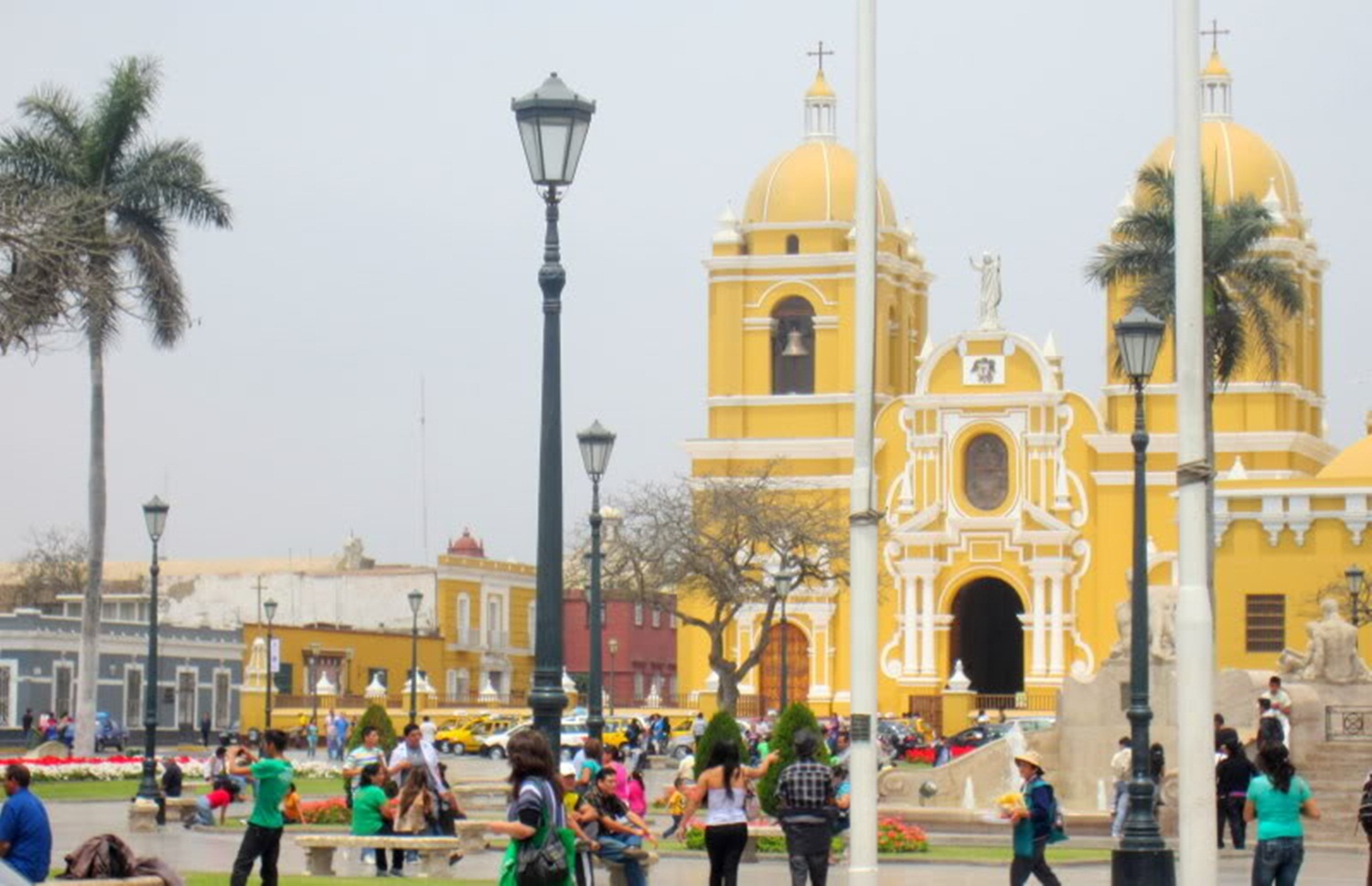 Catedral de Trujillo